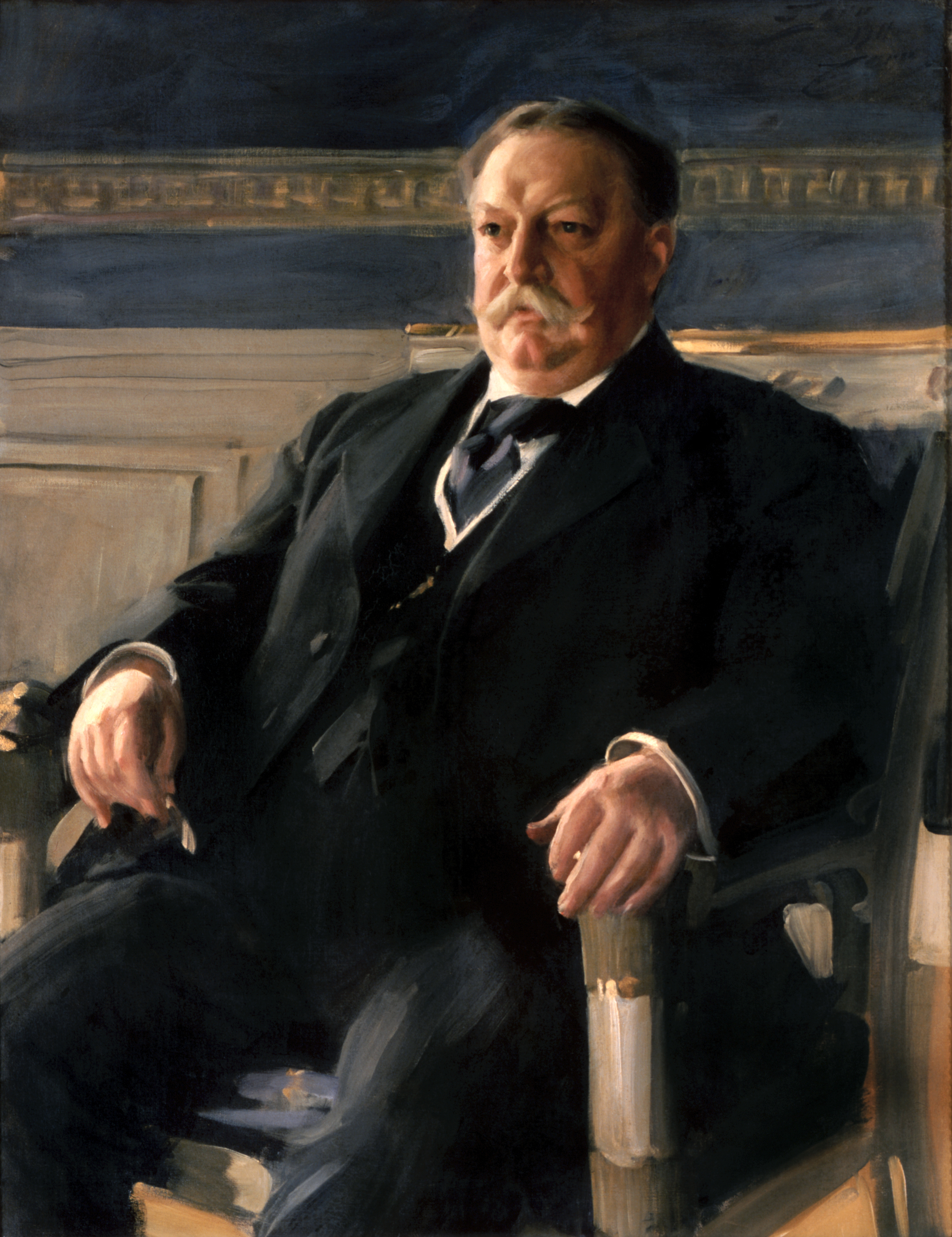 Official White House portrait of William Howard Taft